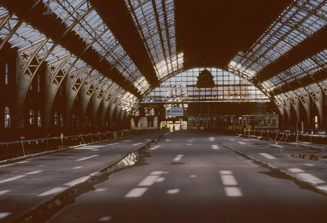 Inside a derelict Manchester Central Station